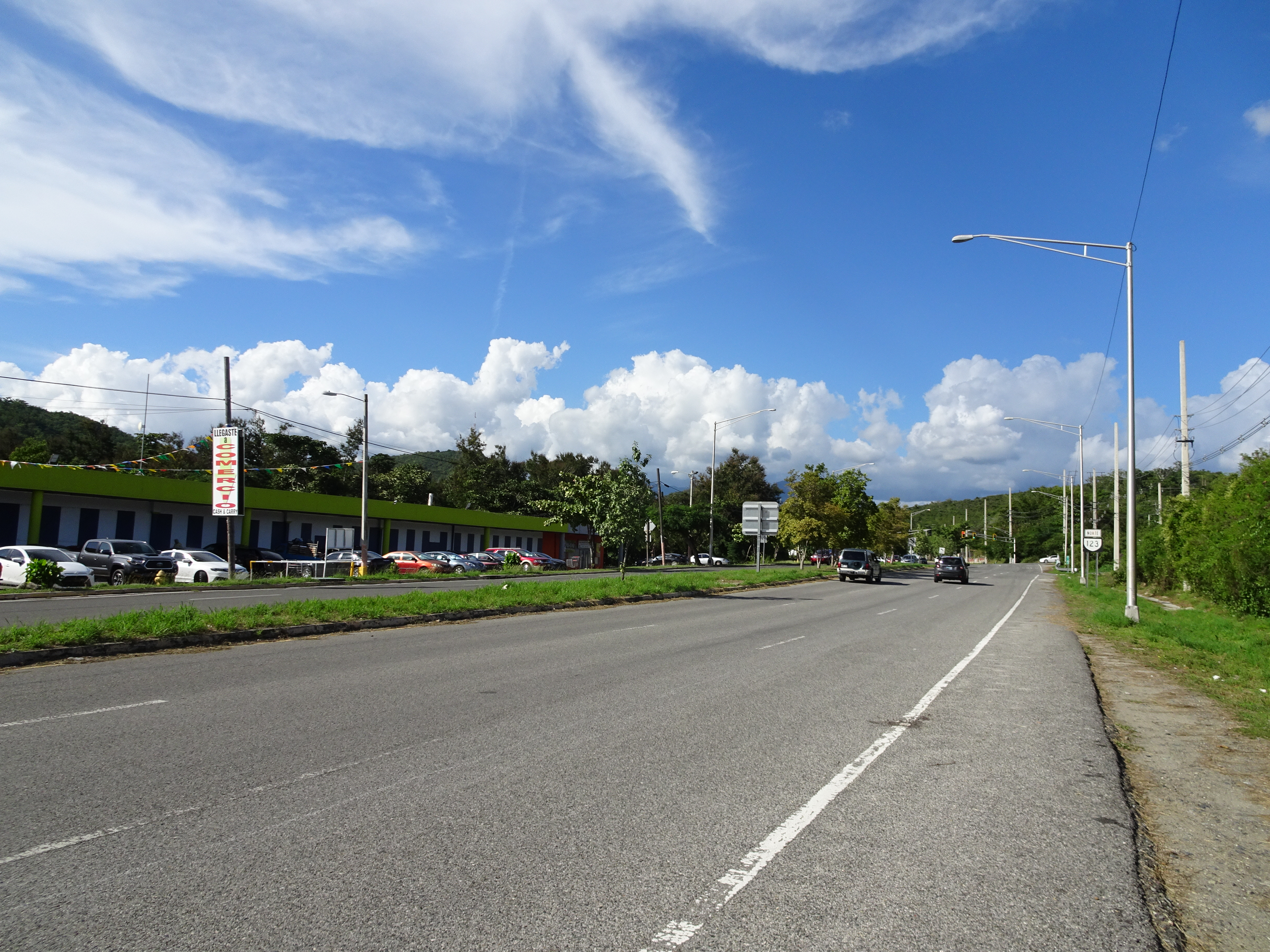 PR-123, al norte de la intersección con PR-9, Bo. Magueyes, Ponce, Puerto Rico, mirando al norte (DSC02720)